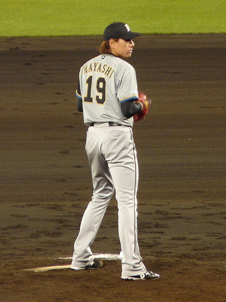 NF-Masanori-Hayashi20100513